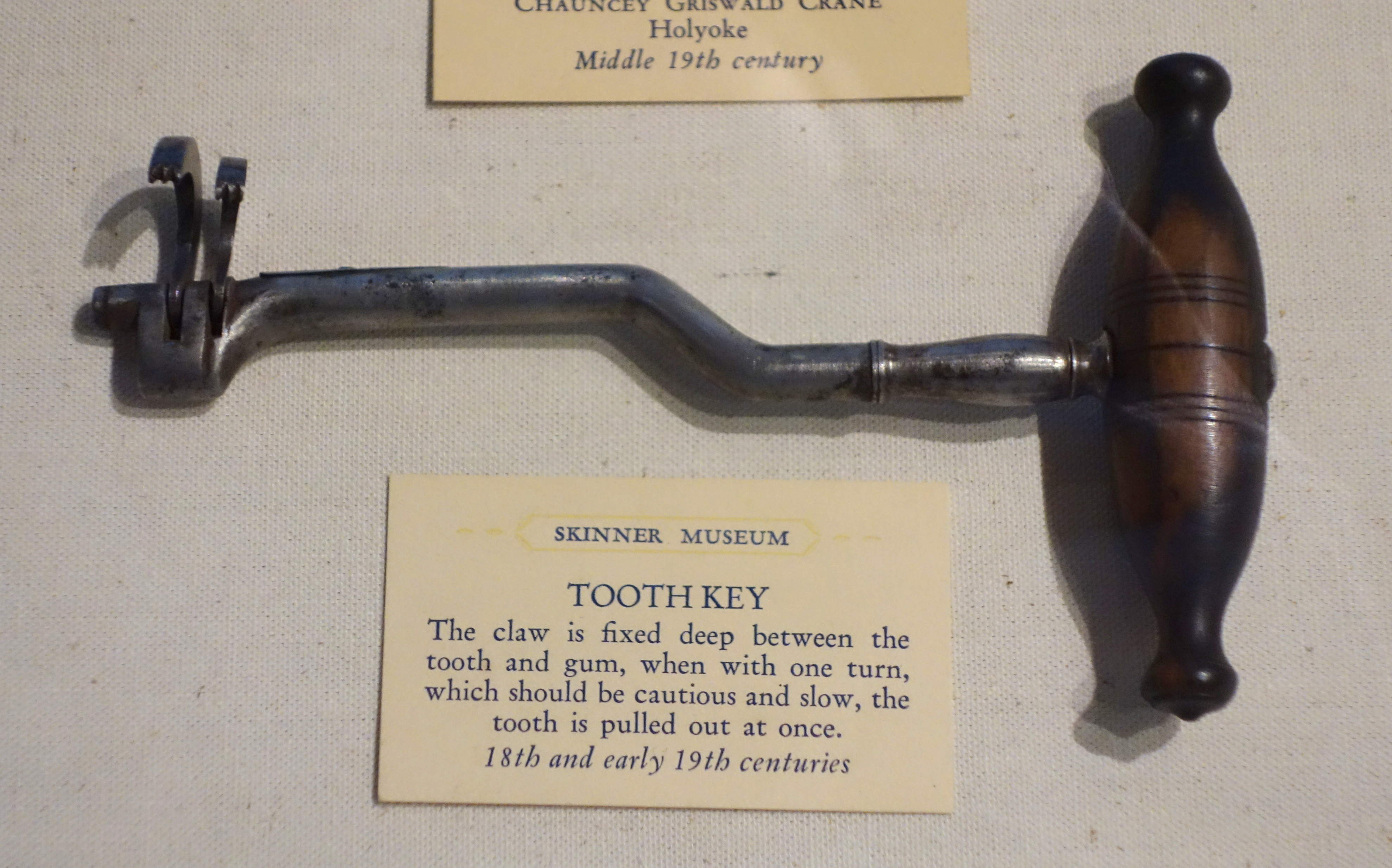 Exhibit in the Joseph Allen Skinner Museum, South Hadley, Massachusetts, USA.